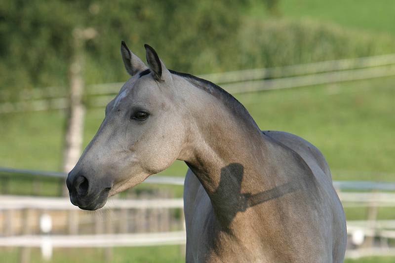 A pony with a roached mane